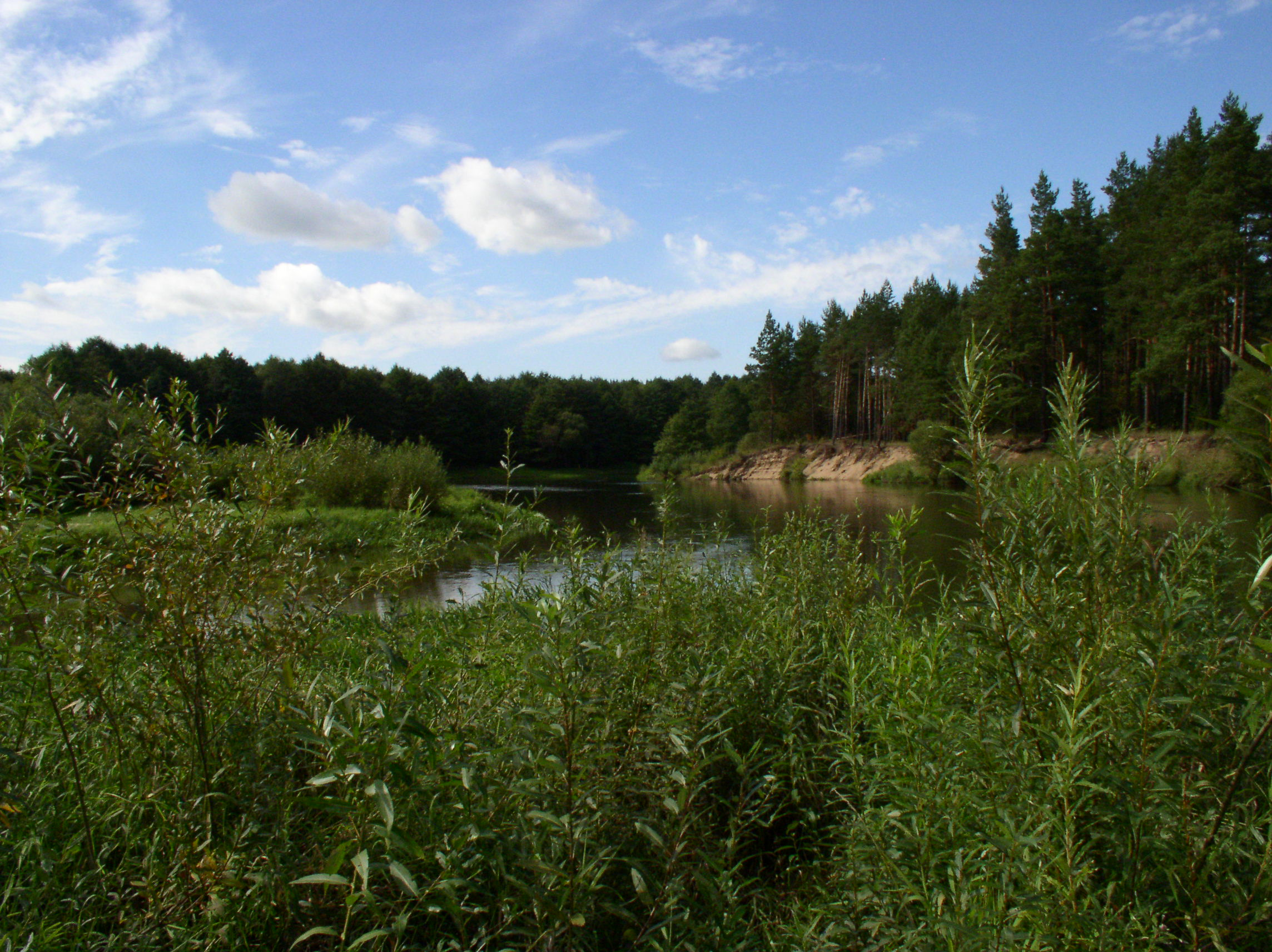 Junction of Viliya and Usha rivers, Belarus.